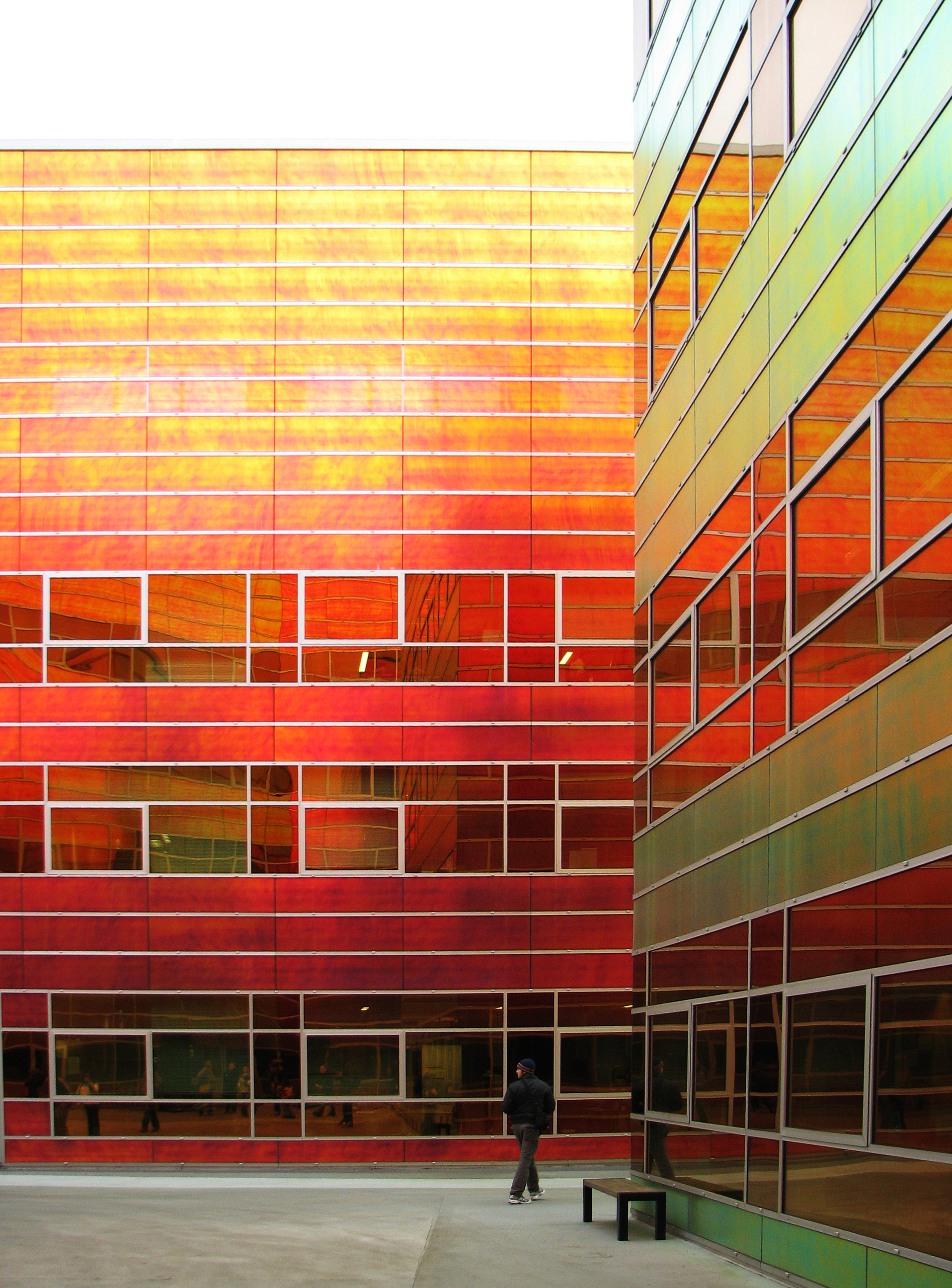 La Defense building by UN Studio in Almere